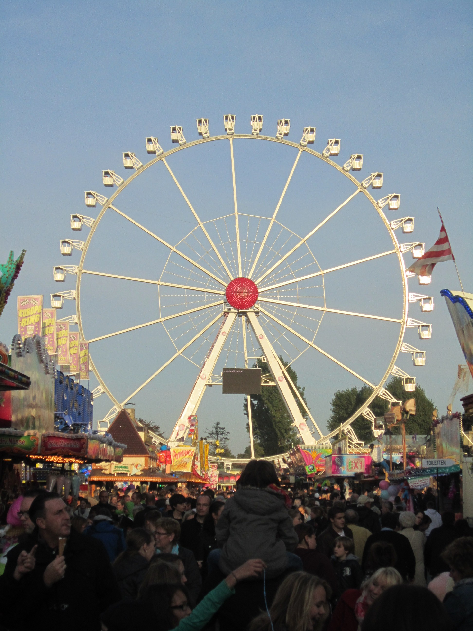 View along a lane to the Ferris wheel of Oldenburg Kramermarkt